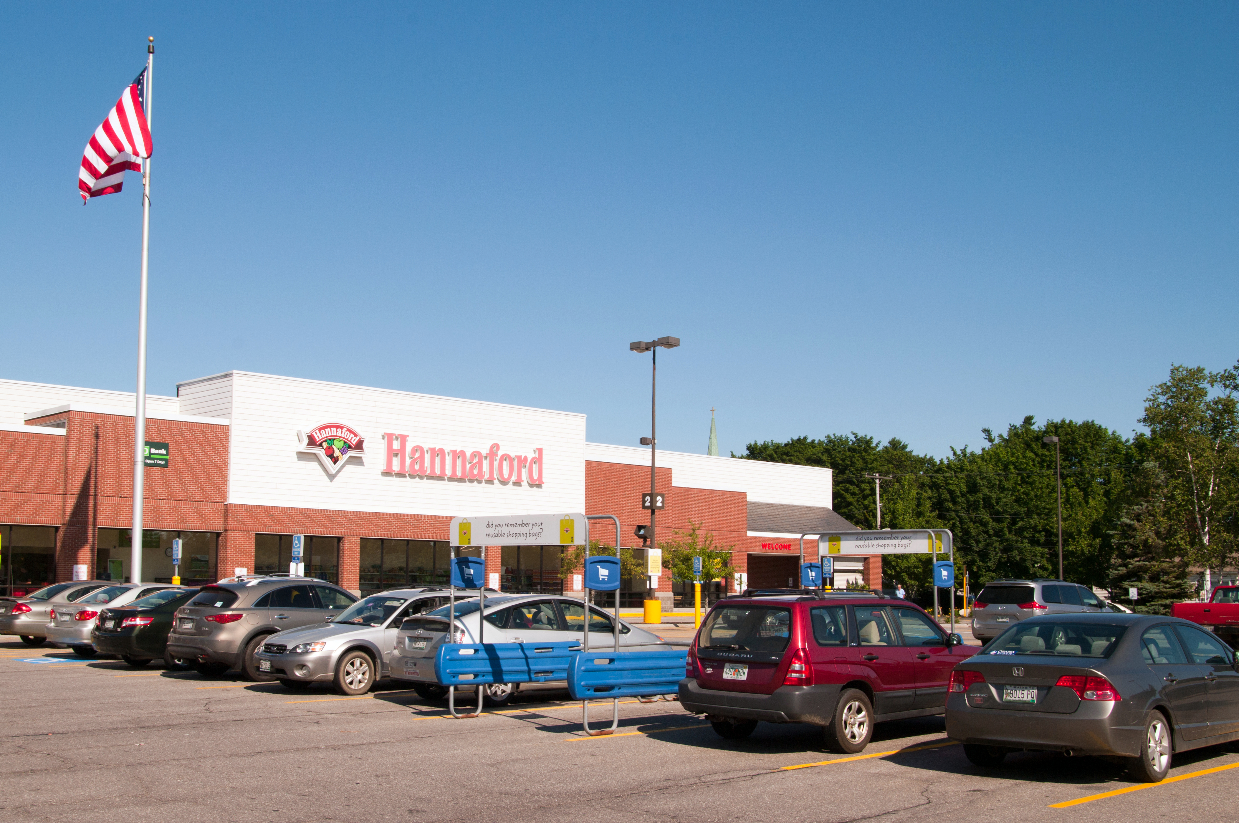 Brunswick, ME Hannaford supermarket